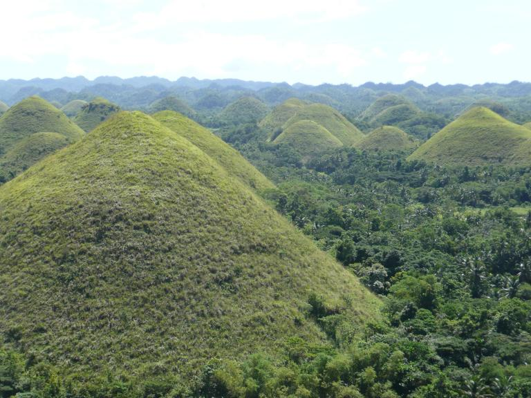 Chocolate Hills of Bohol, Philippines